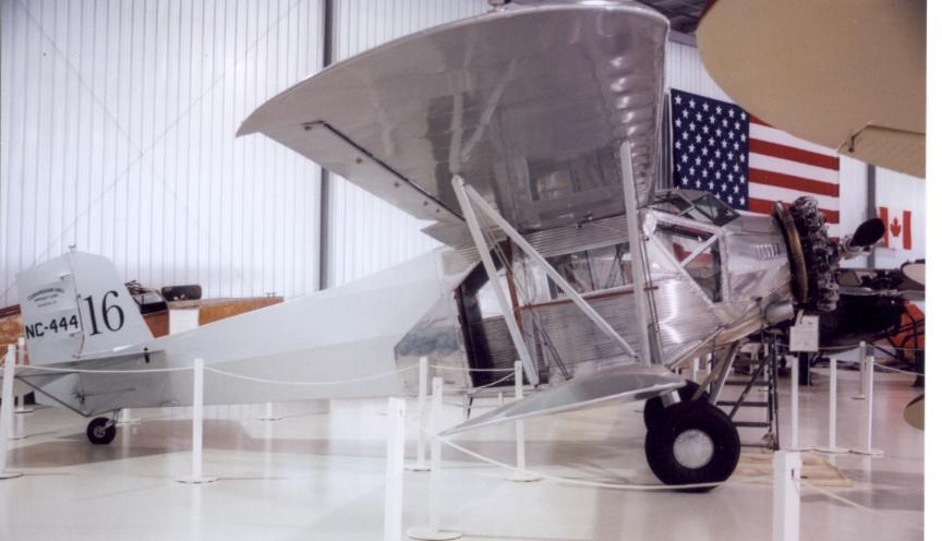 Cunningham-Hall PT-6F Herrick Collection Minnesota